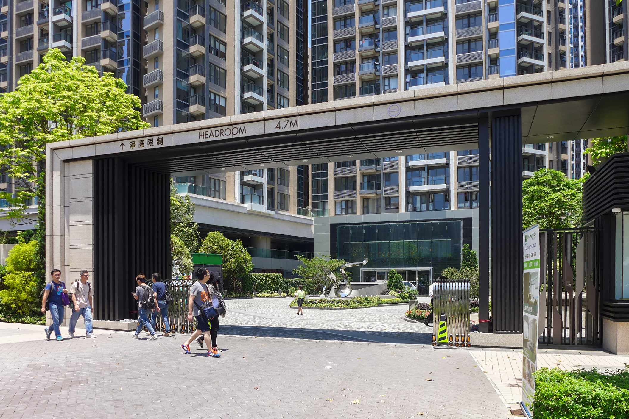 The Wings 3A Entrance